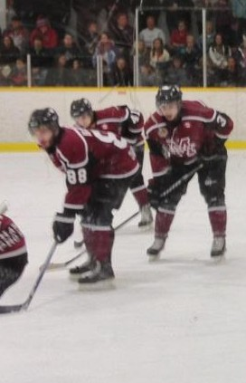 This photo was taken by Devan Mighton during the 2013 GOJHL playoffs.